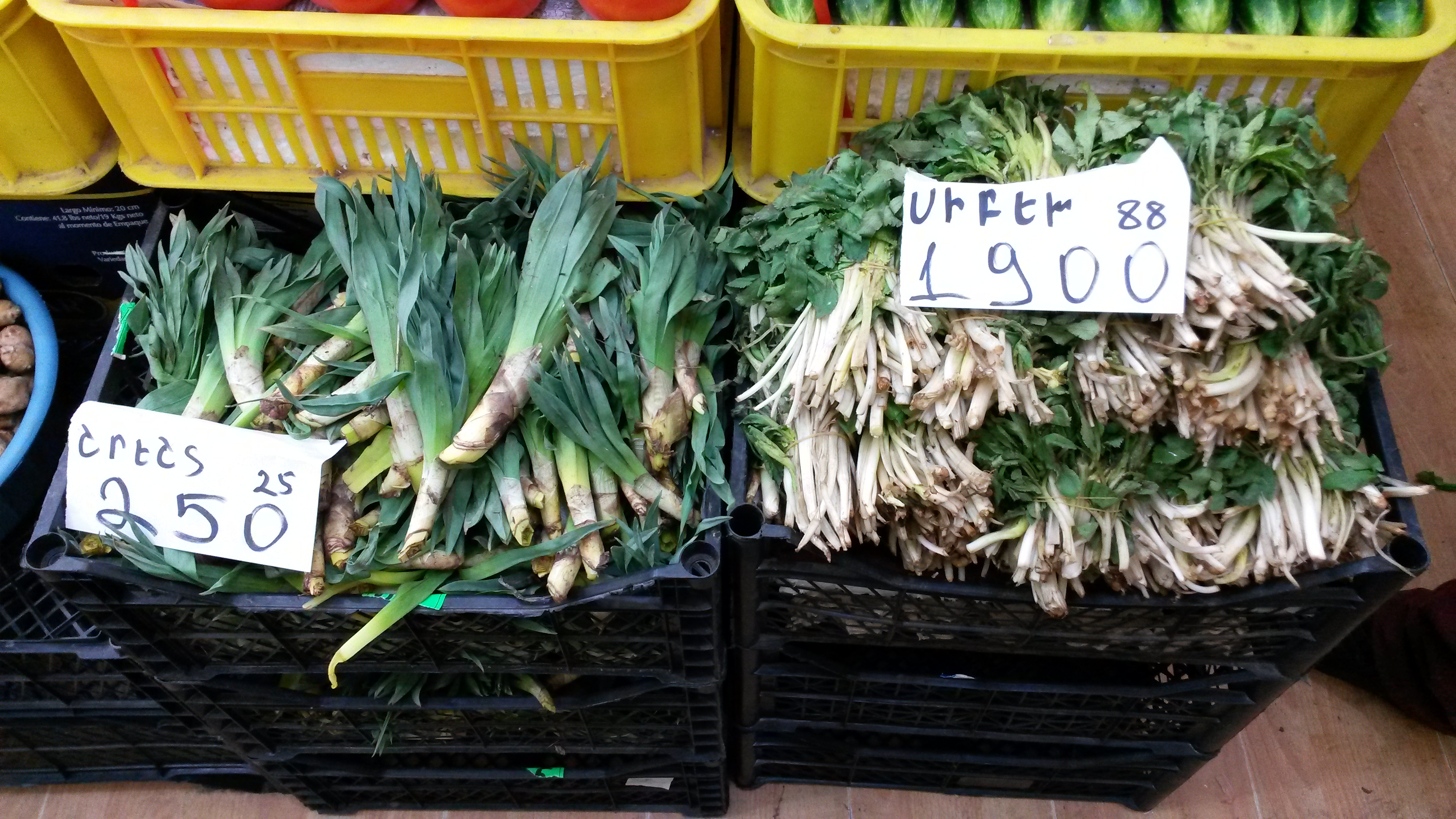 eremurus and falcaria leaves for consumption in Yerevan, Armenia